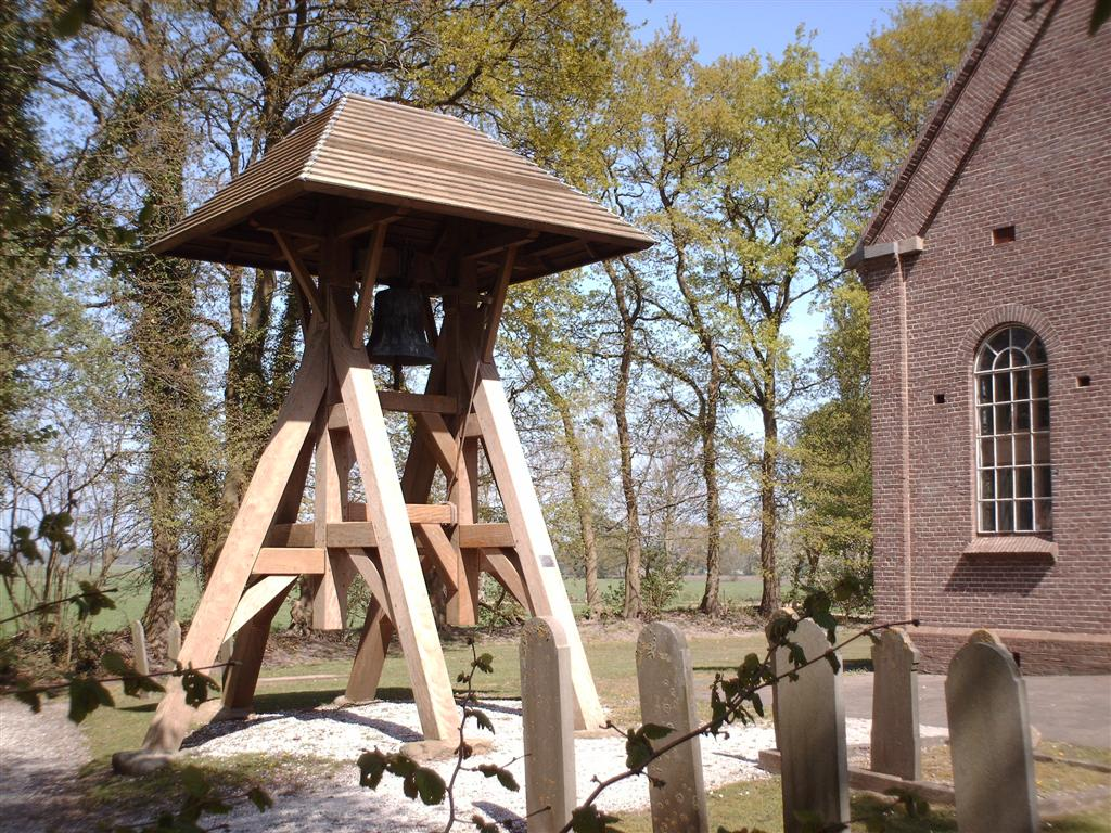 wooden bell tower in Appelscha, Friesland, Netherlands